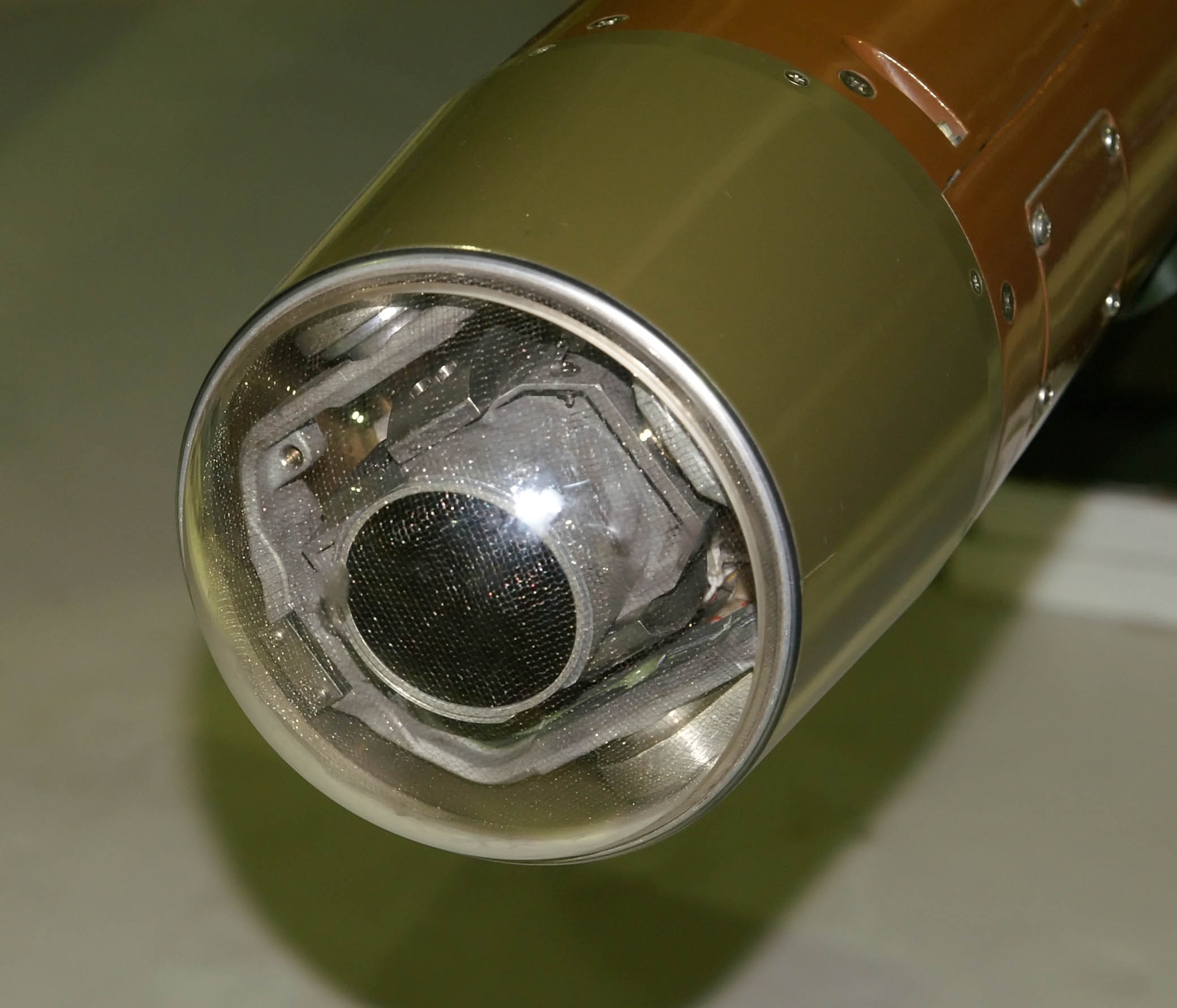 A GBU-24 Paveway III laser guided bomb seeker head - see also Paveway General information: Note the fine metal mesh inside the seeker glass, functioning as RF shielding preventing high powered radars from jamming the seeker electronics.